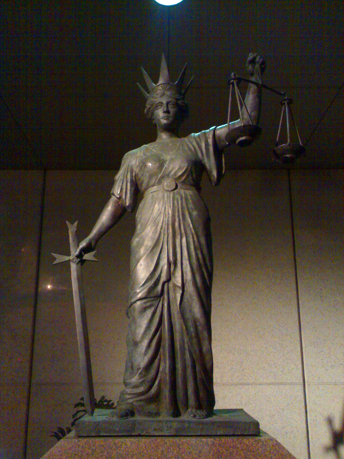 Statue of Themis, outside the former Law Courts, George Street, Brisbane, Queensland, Australia.